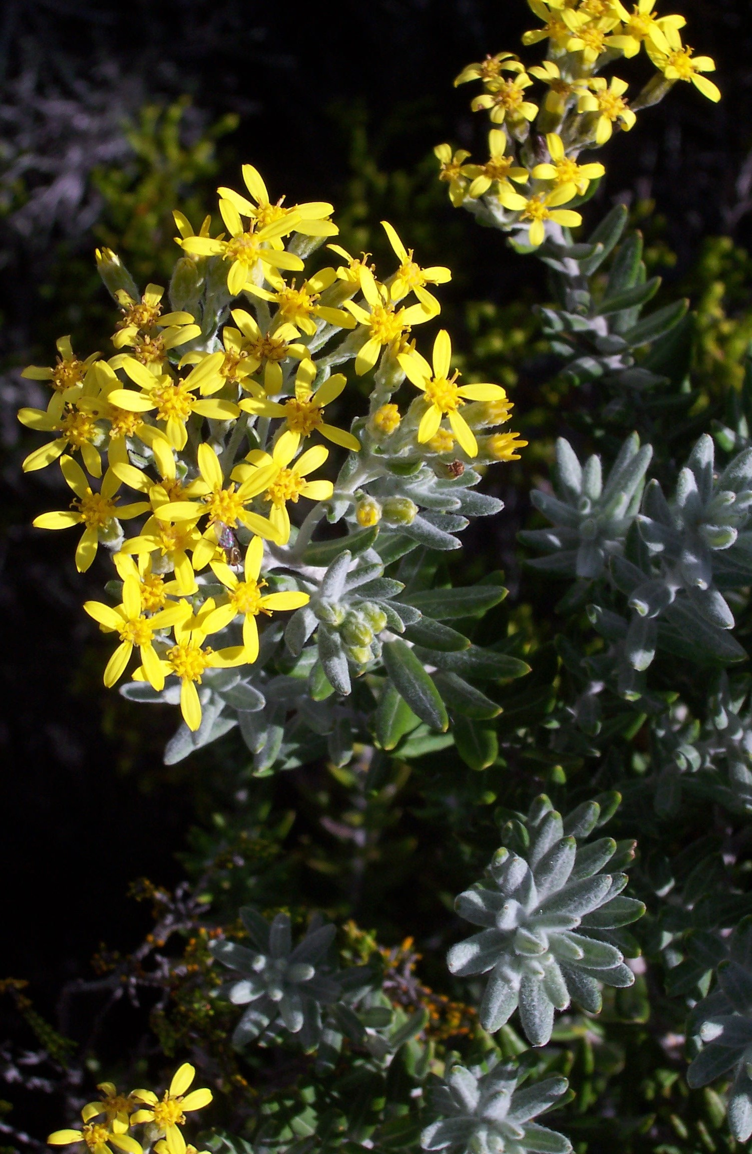 Hubertia tomentosa (flowers) fr: Ambaville blanc Photo : B.navez - 15 APR 2006 - Réunion island